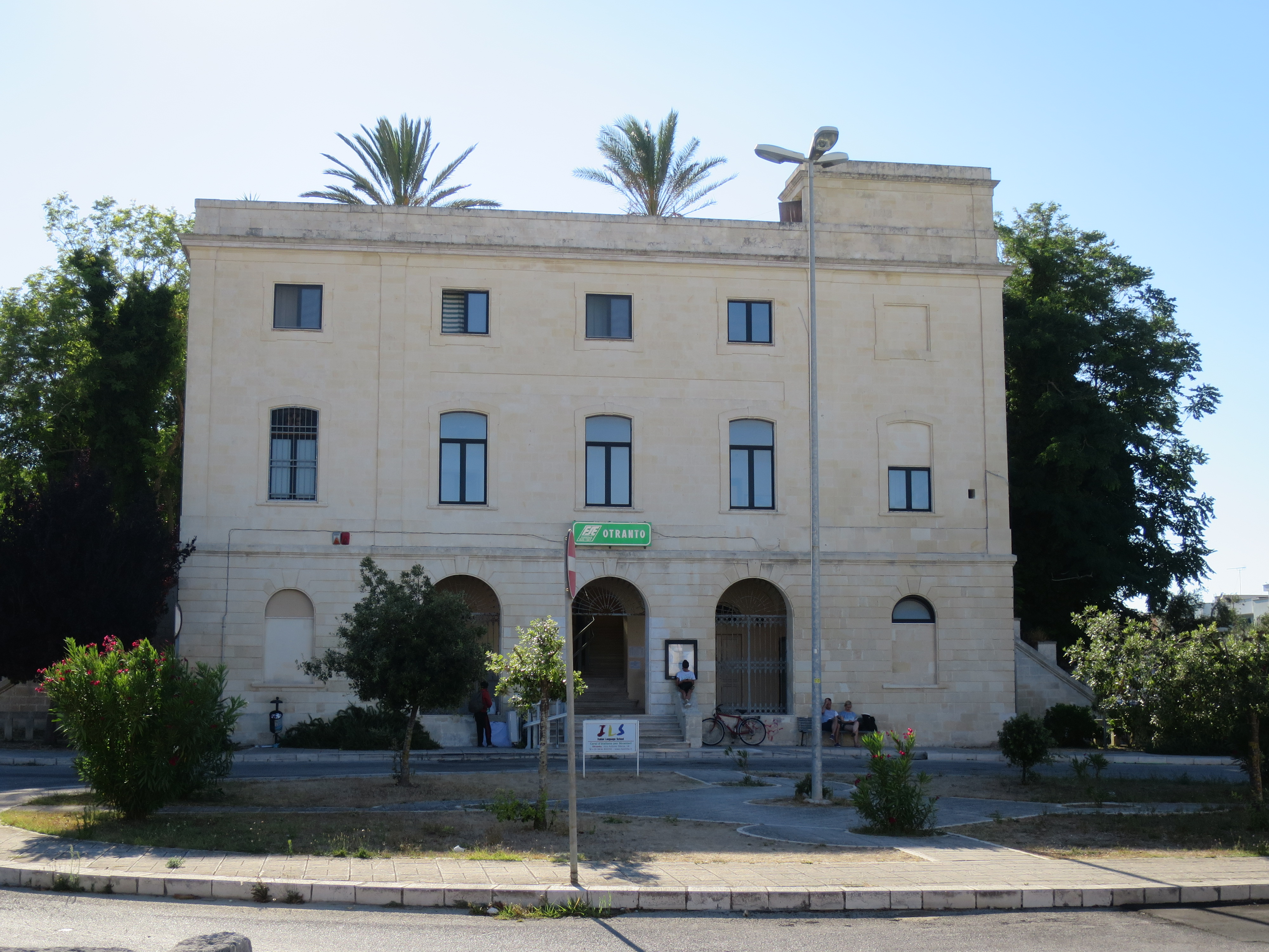 Station building Otranto